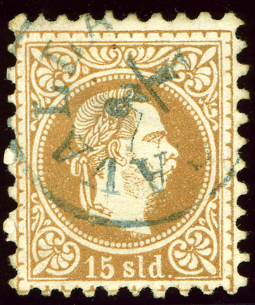 Cavalla (Greece) rare blue cancellation on Austrian Levant 15 soldi, issue 1867, brown